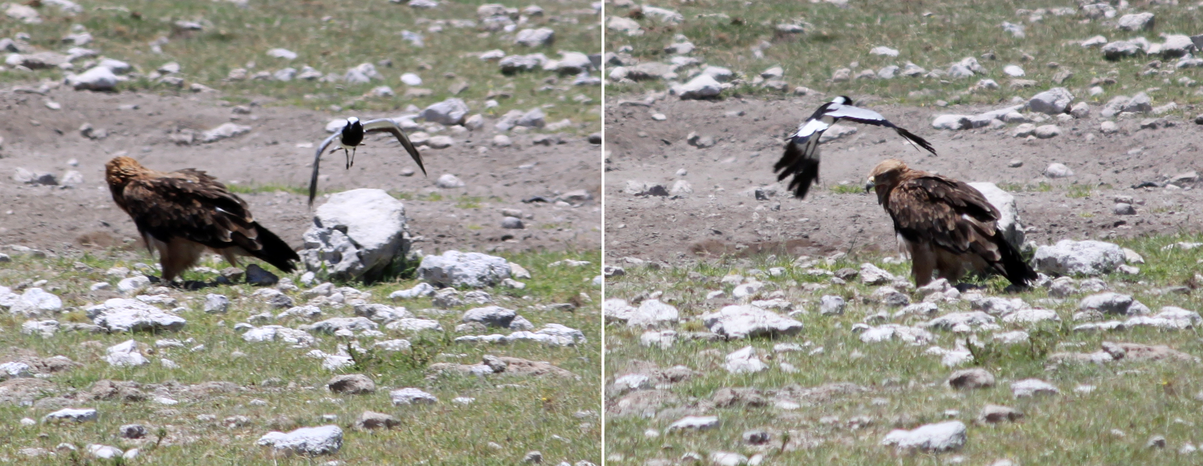 Etosha National Park: Blacksmith Lapwing (Vanellus armatus) attacking a Tawny Eagle (Aquila rapax)